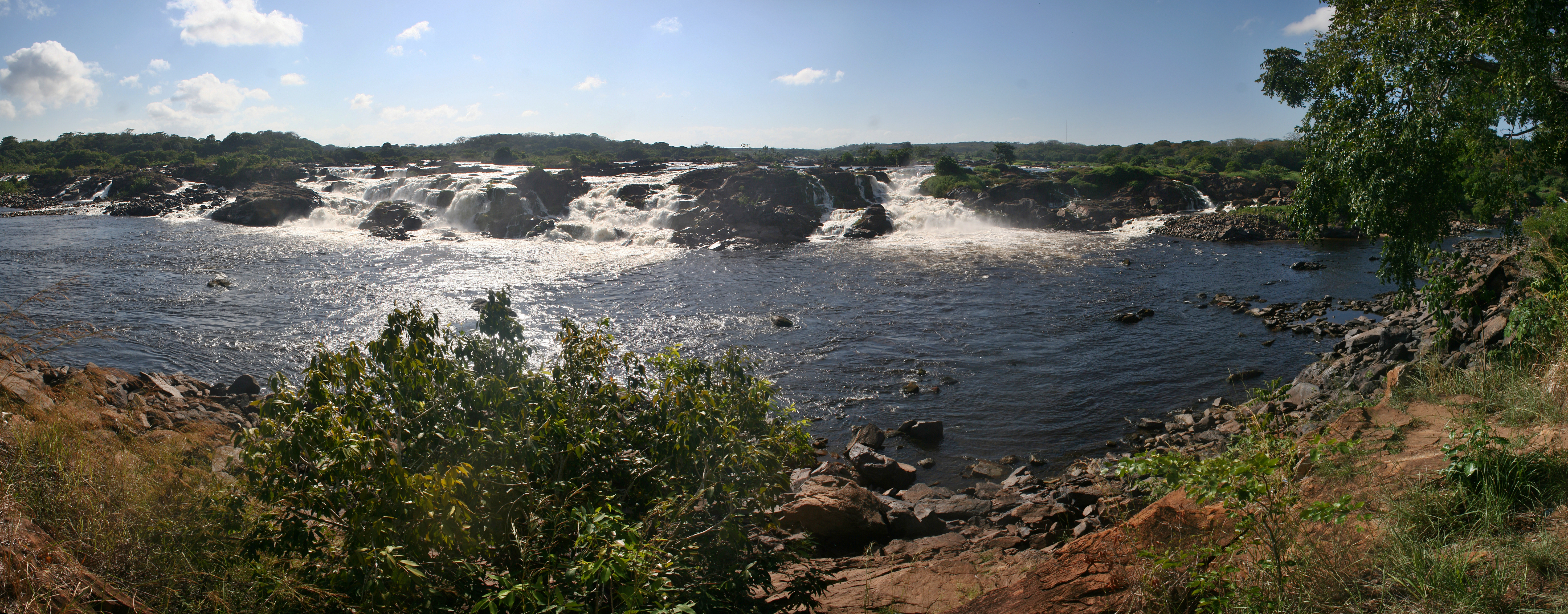 The Cachamay falls of the Caroní River in Puerto Ordaz, Venezuela. Today, the falls are about 500m long. Here is a picture of the same falls before the construction of the Aconcagua II dam and hydroelectric powerplant.